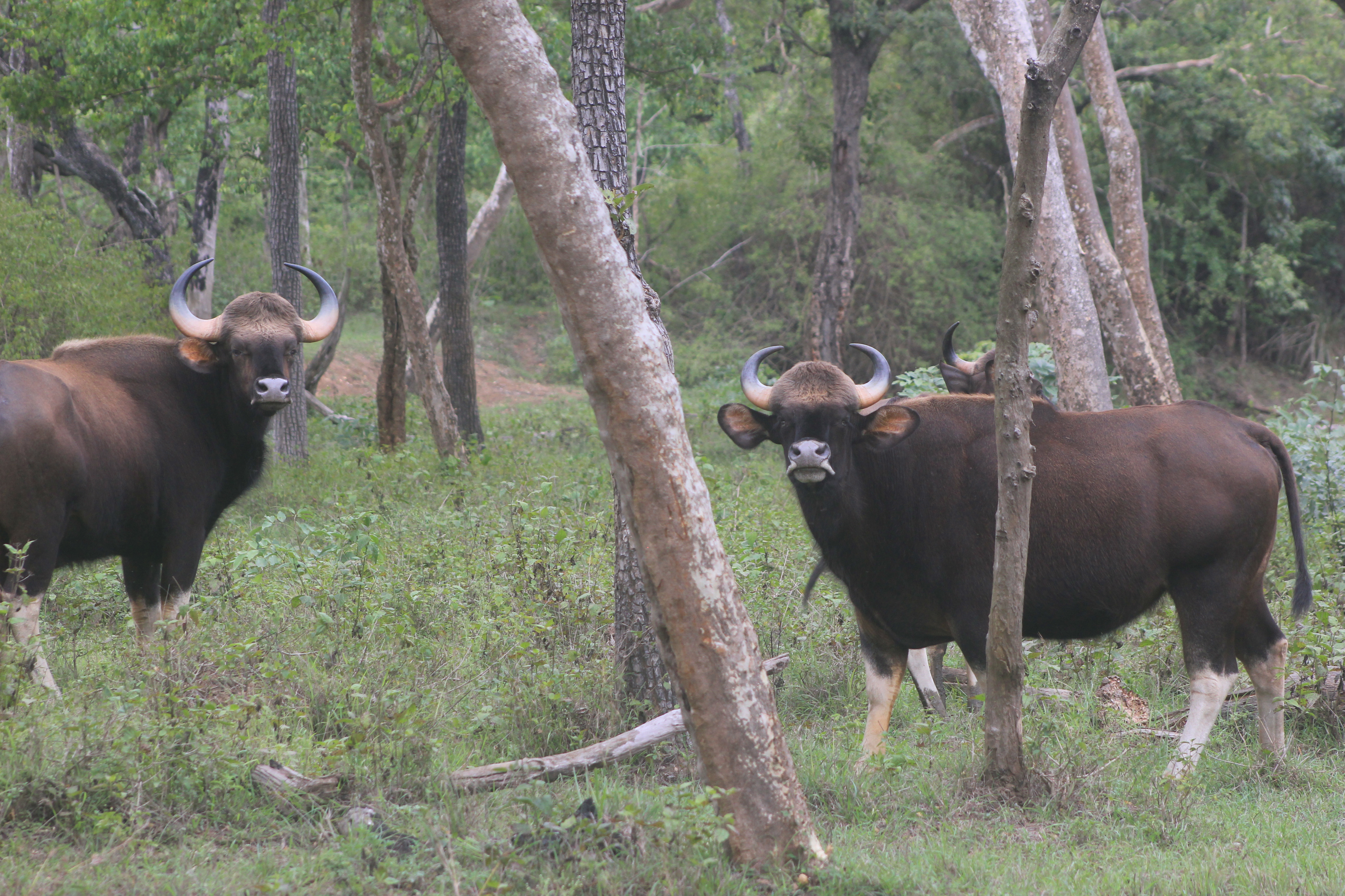 This photograph was taken by me at Bandipur National Park and Project Tiger Reserve, Karnataka state, India